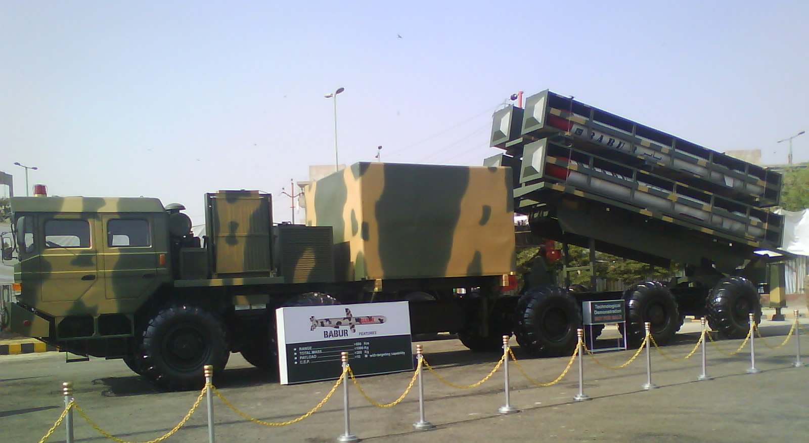 Babur Cruise Missile displayed at IDEAS 2008 [Pakistan]